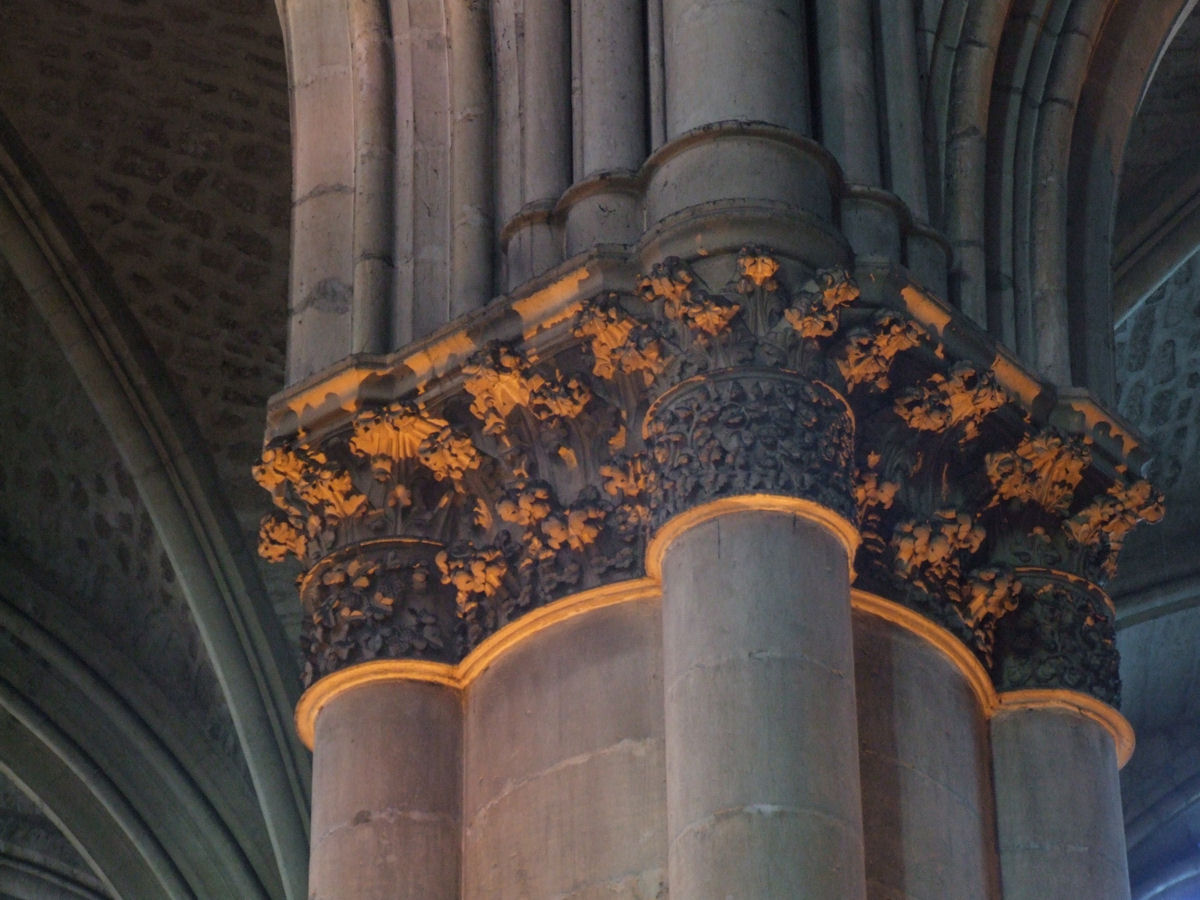 Cathedral Notre-Dame de Reims, France - Interior - Main altar